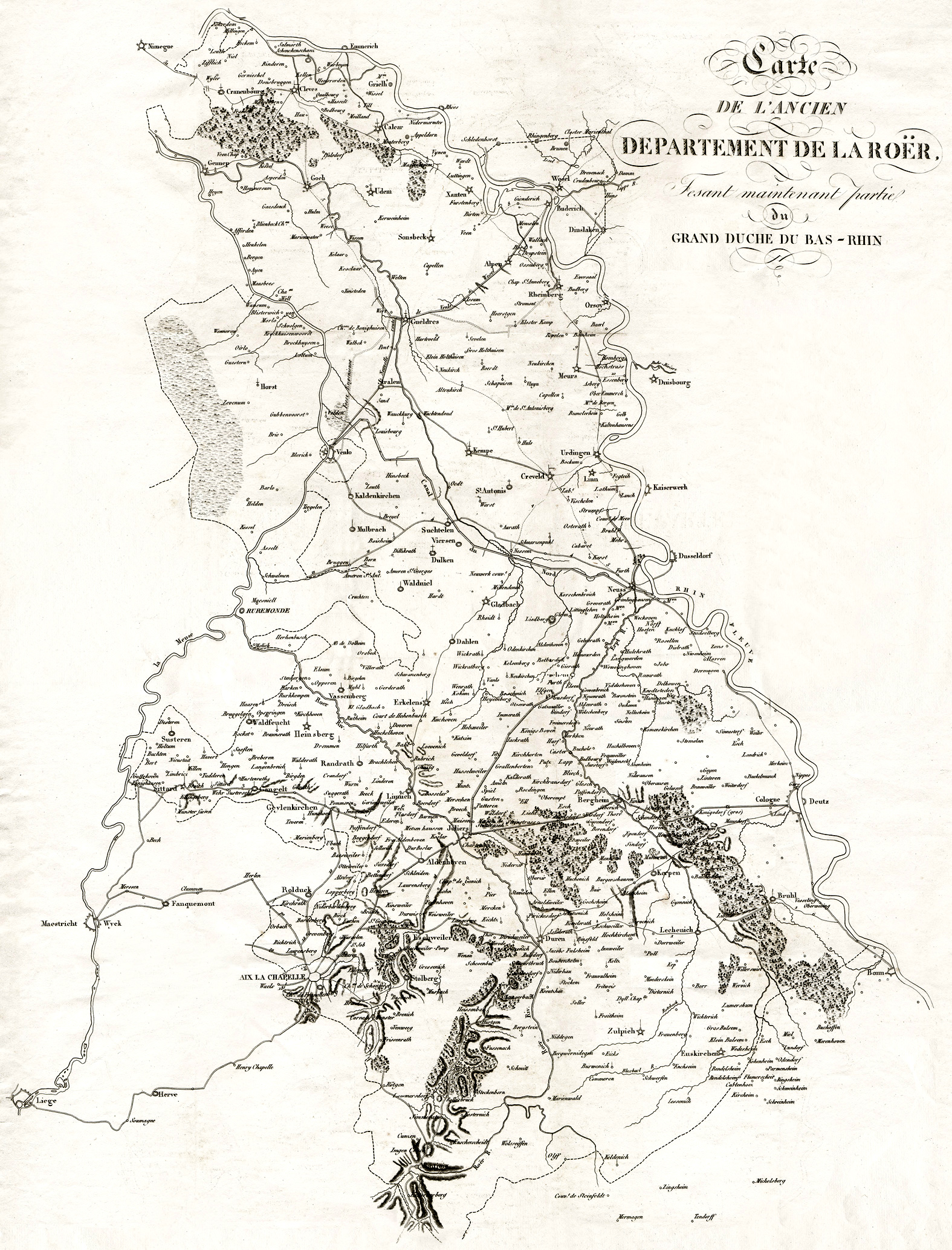 Map of former french department Roer.